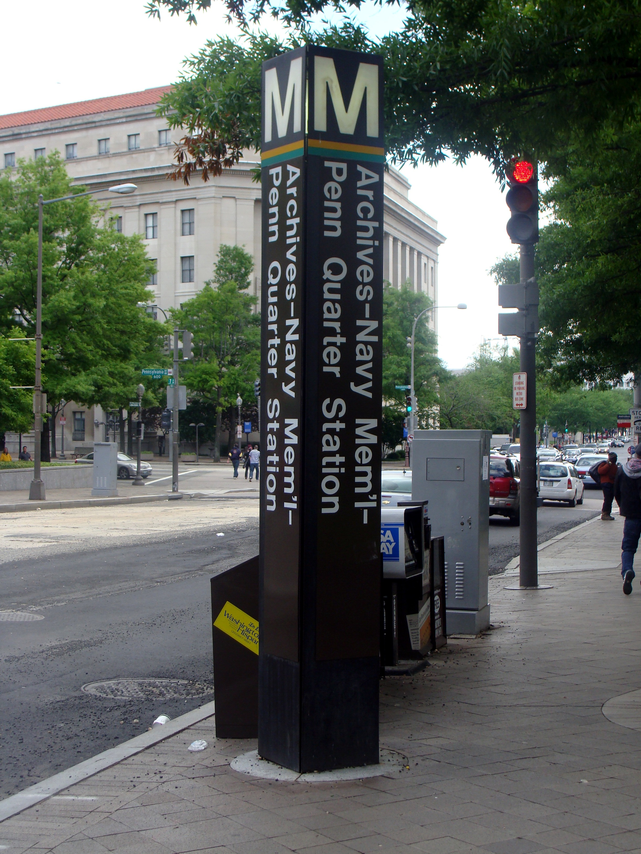 Station entrance pylon for the Washington Metro station Archives – Navy Memorial – Penn Quarter.